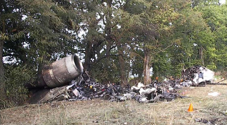 Crash site of Comair Flight 5191.